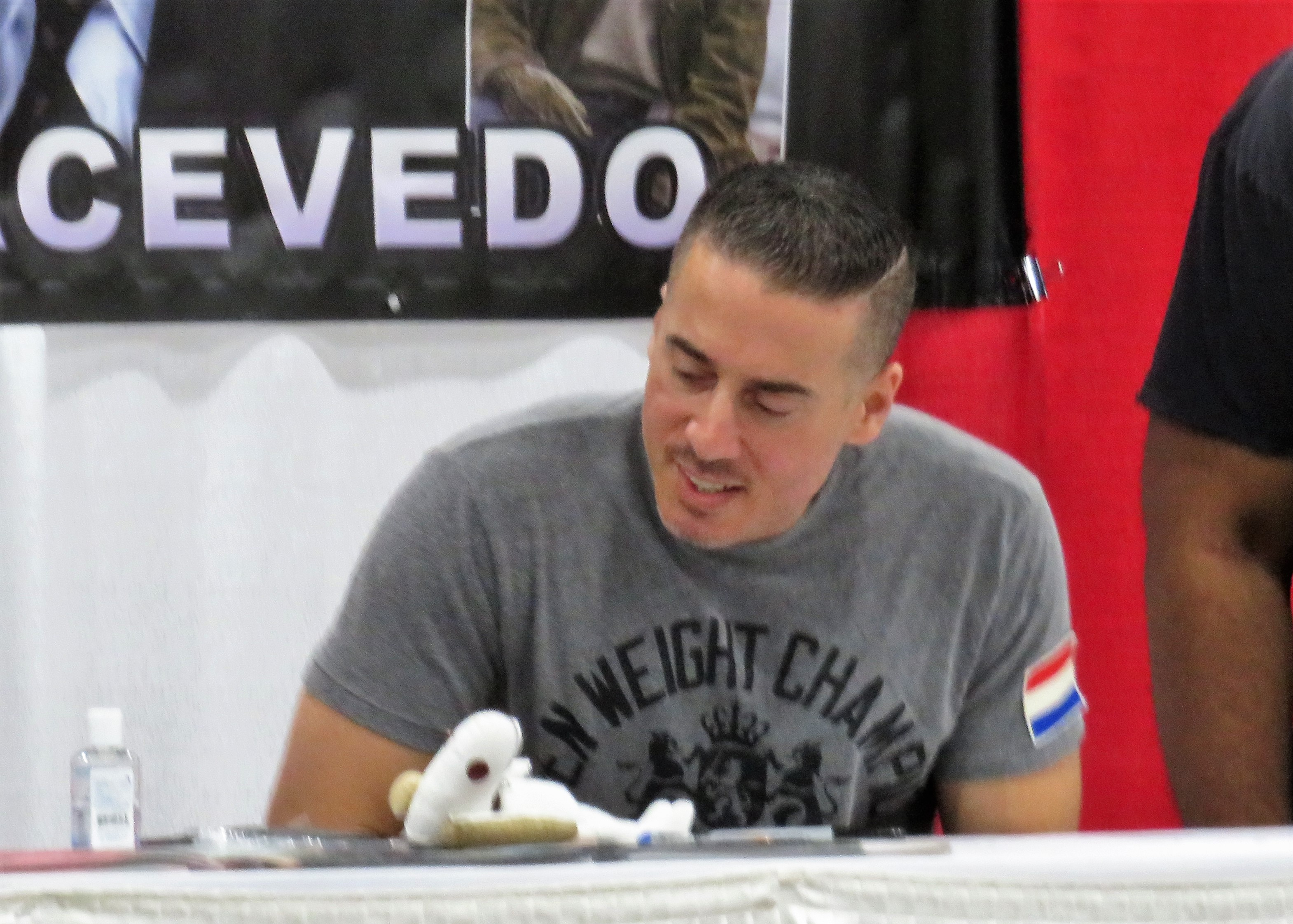 47-year old American actor Kirk Acevedo at a table at the 2018 Motor City Comic Con looking down at a toy bunny lying in front of him